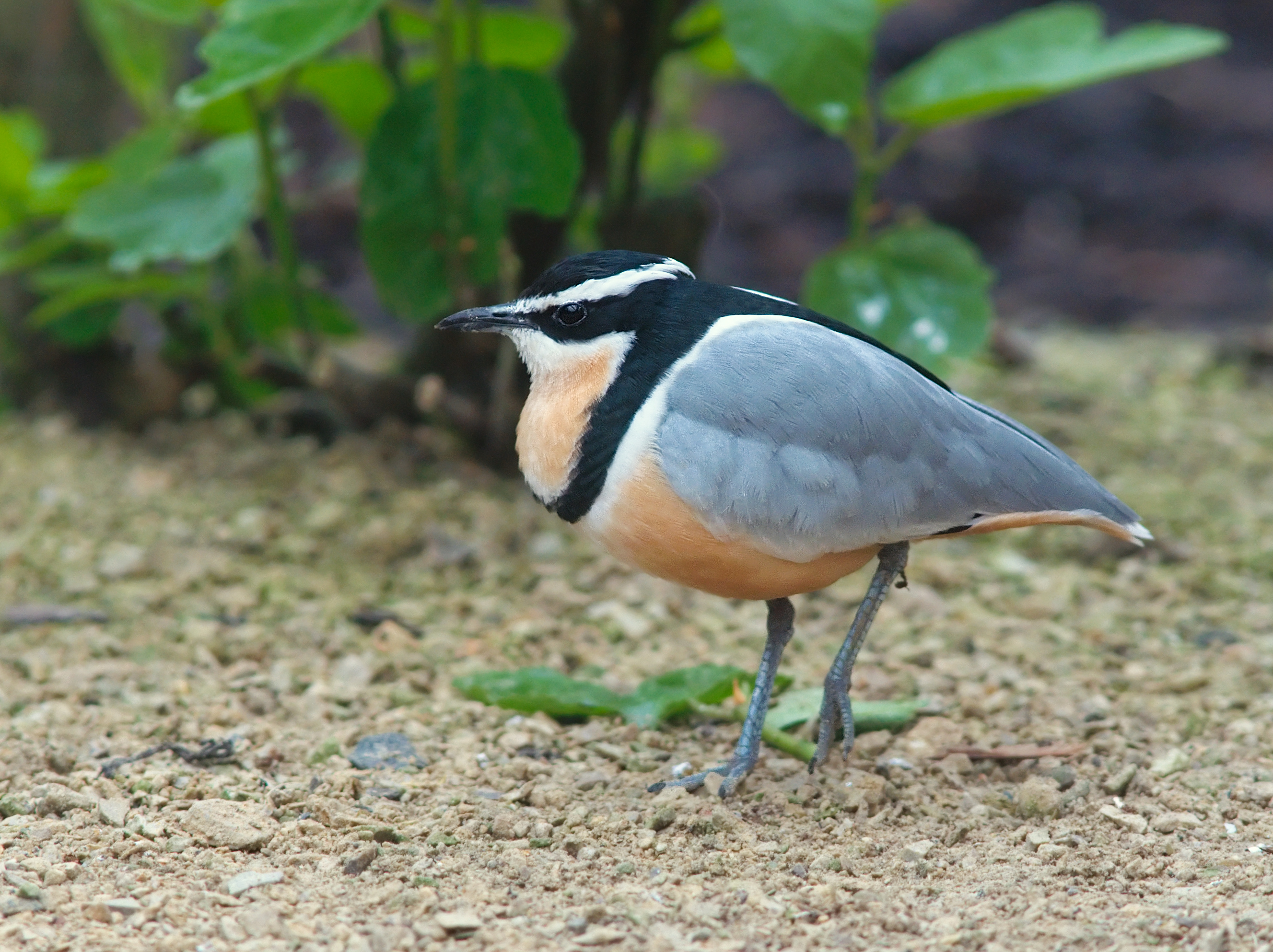 Egyptian Plover